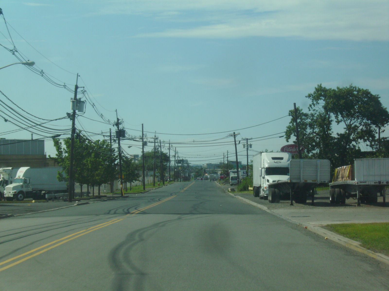 Dowd Avenue in Elizabeth, New Jersey heading southbound through the industrial portions of the city.